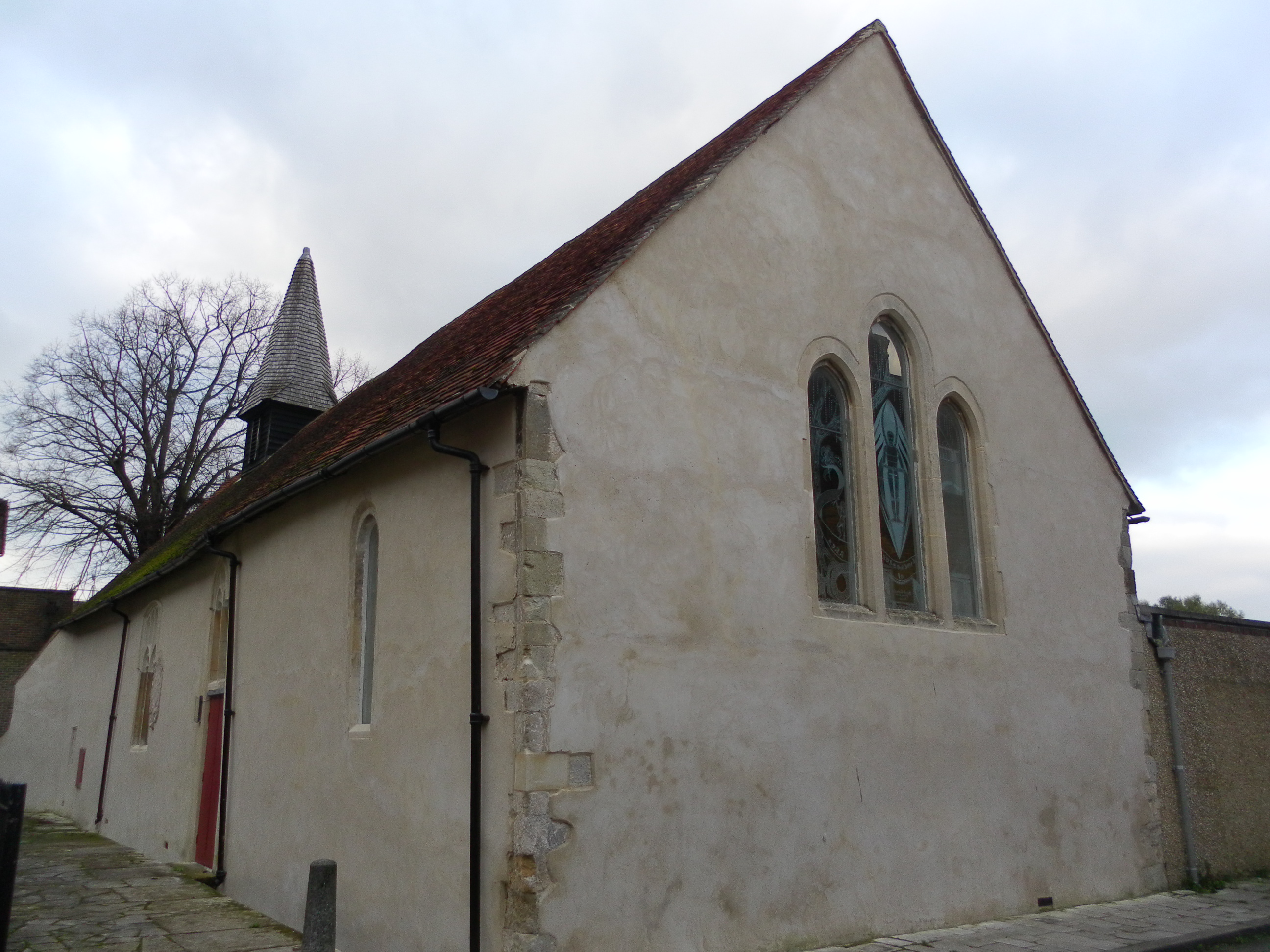 Former parish church of St Andrew in the Oxmarket, Chichester, West Sussex, England, seen fro the southeast. Sustained war damage in 1943 and now deconsecrated. Converted in the 1970s into an arts centre.